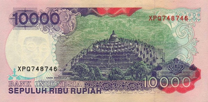 10000 rupiah banknote